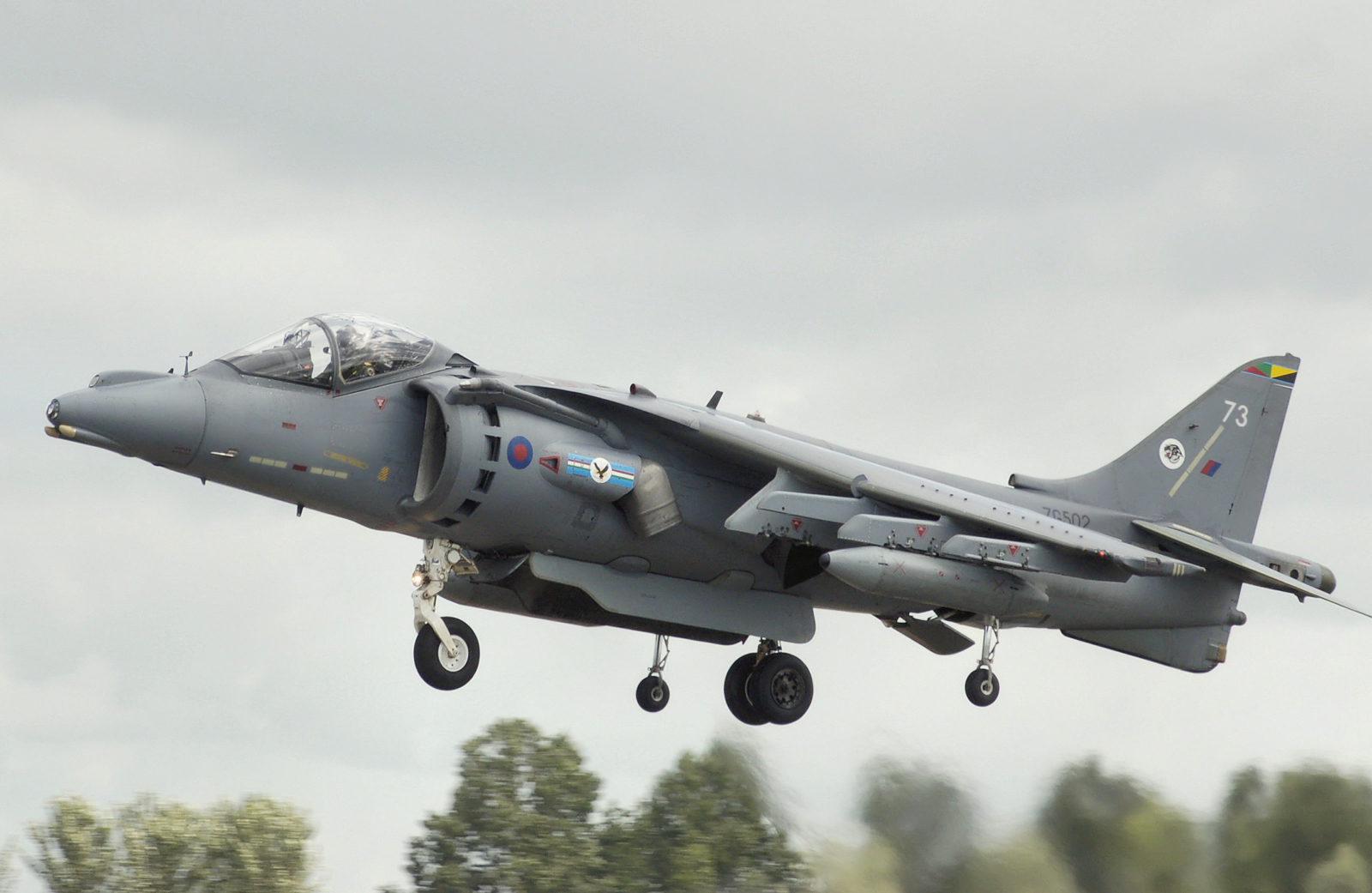 British Aerospace Harrier GR9 (codes ZG502/73) arrives at the 2008 Royal International Air Tattoo, Fairford, Gloucestershire, England, United Kingdom of Great Britain and Northern Ireland.